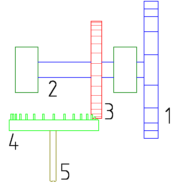 A (simplified) schematic of the gears present in a windmill. In reality, most windshafts were placed at a slight angle (despite that on some point in time, completely horizontal shafts were in fact used). The image was based on